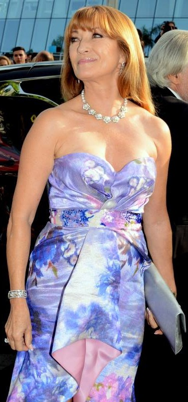 Jane Seymour at the Cannes film festival